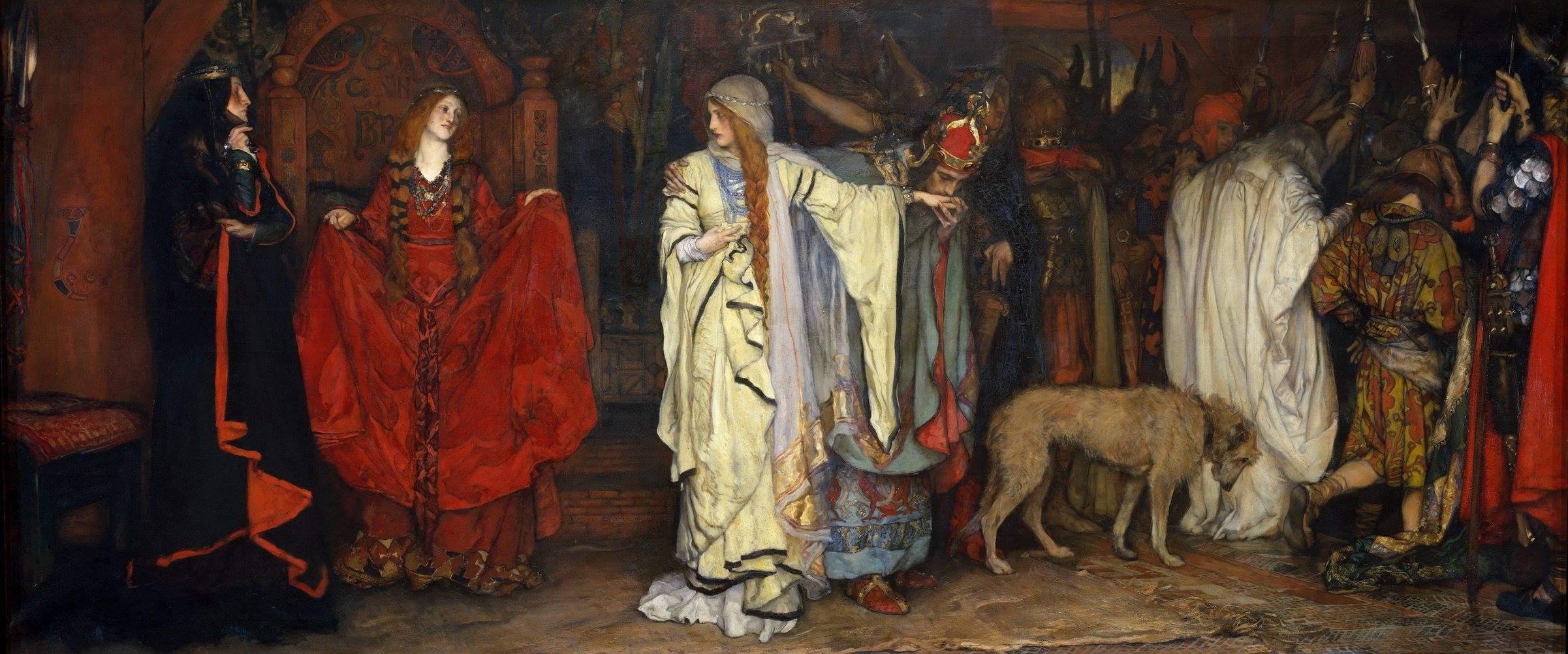 King Lear: Cordelia's Farewell. Metropolitan Museum of Art - New York, NY (United States) Dates: 1897-1898 Dimensions: Height: 137.8 cm (54.25 in.), Width: 323.2 cm (127.24 in.) Medium: Painting - oil on canvas